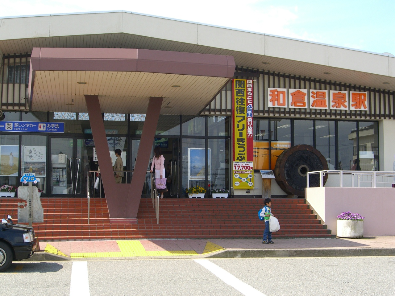 "Wakura Onsen Station", located at Nanao, Ishikawa, Japan.